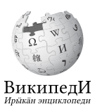 A logo for Wikipedia in the Hill Mari language.